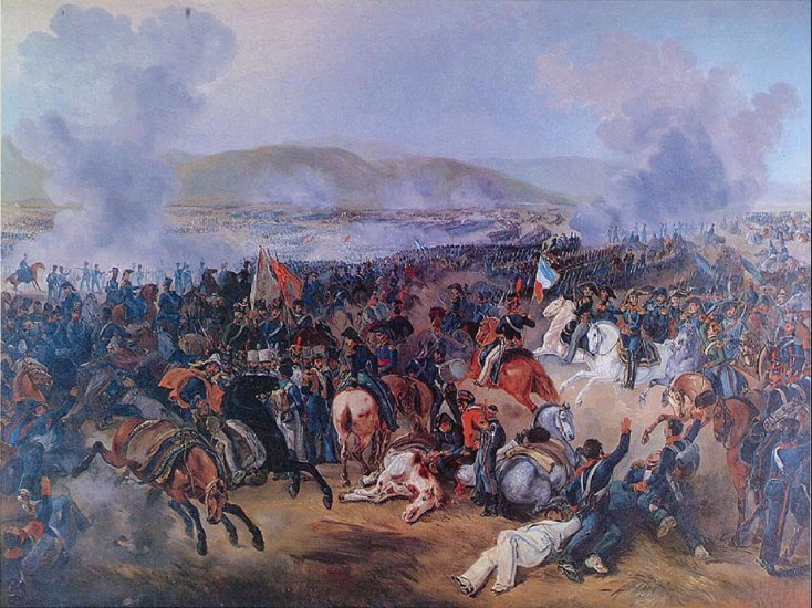 Battle of Maipú, painted in en:1837 by Juan Mauricio Rugendas (died 1858). The painting is today in the Moneda building in Santiago de Chile ([1])